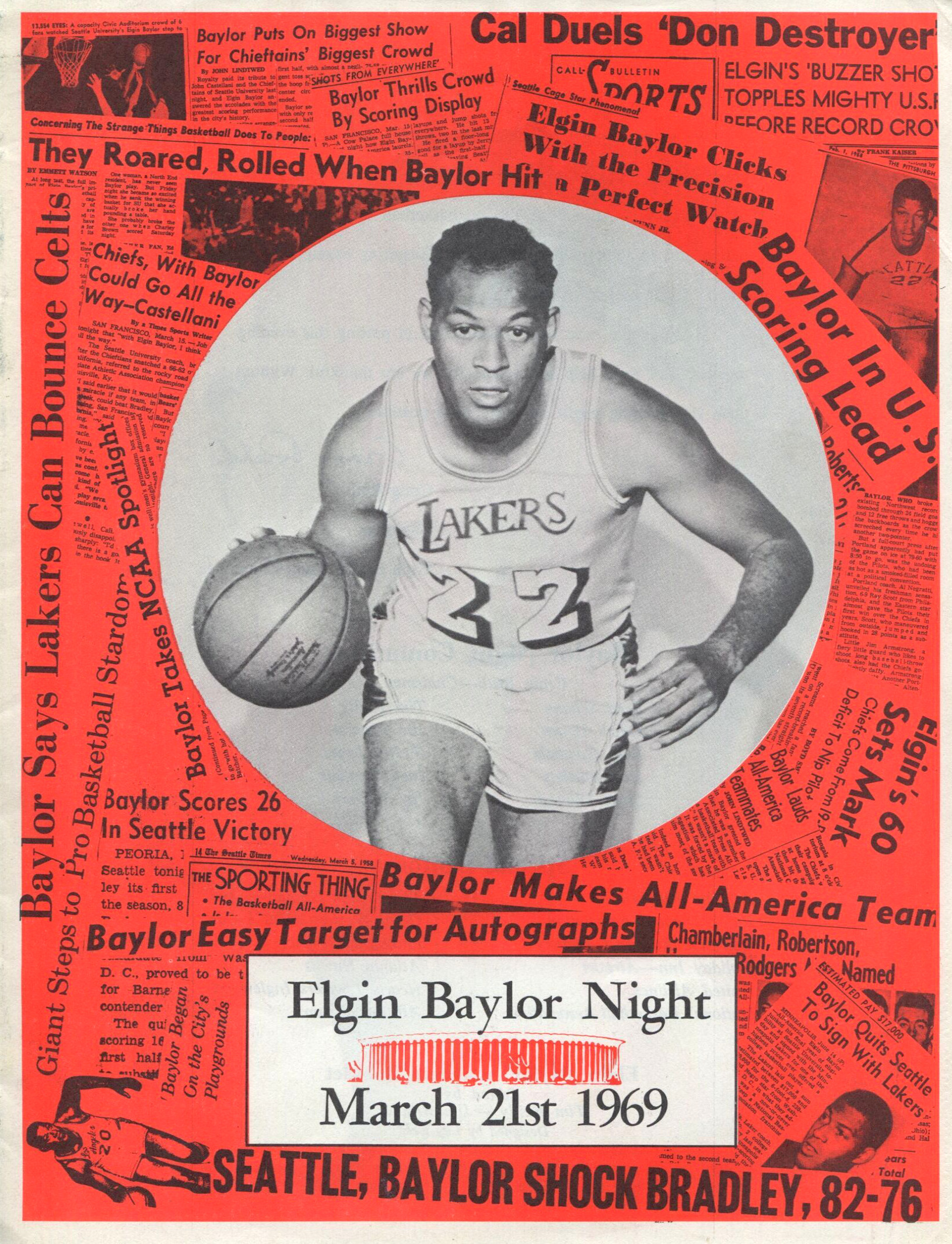 Professional basketball Elgin Baylor on the cover of a Los Angeles Lakers program on March 21, 1969 which was dubbed "Elgin Baylor Night".